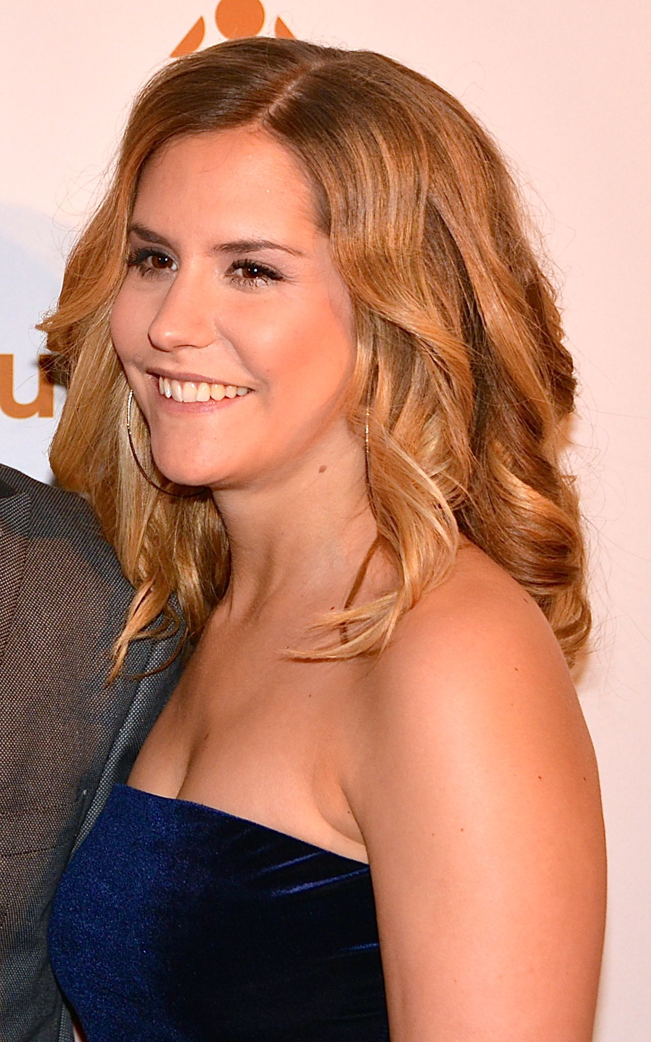 Sofie Hamilton on Guldbaggegalan January 21, 2013 at Cirkus in Stockholm.